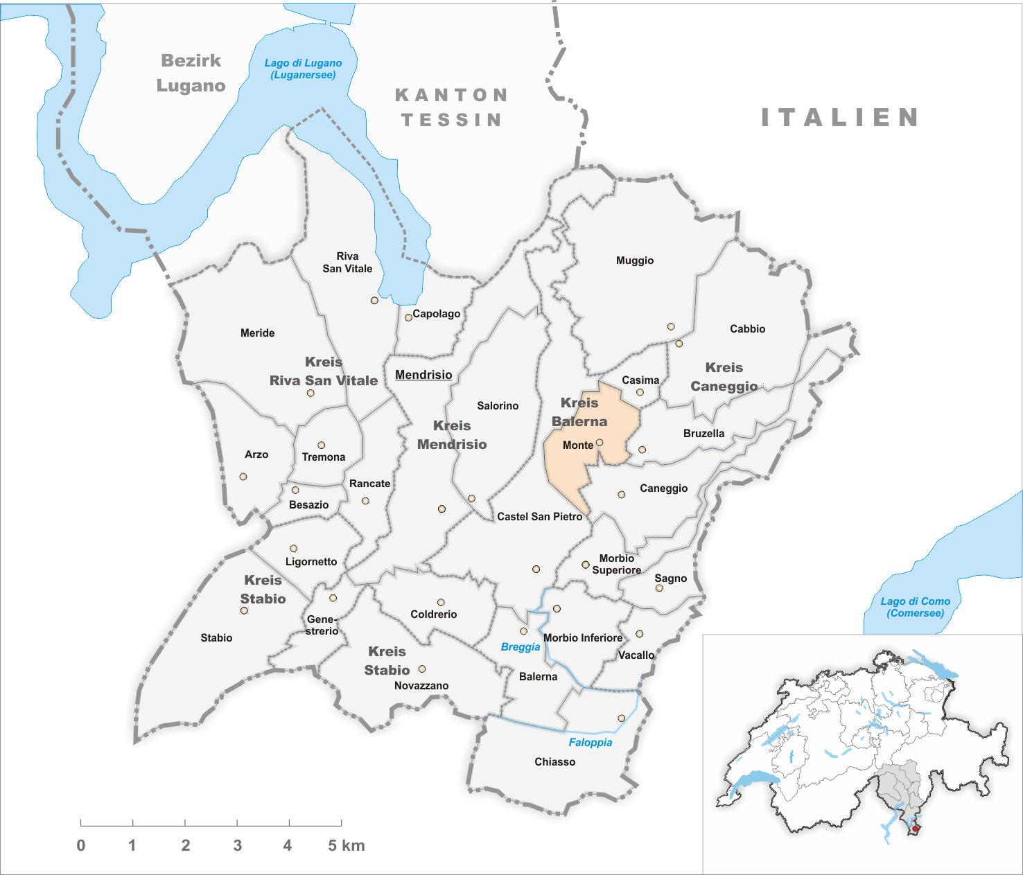 Municipality Monte Artist: Tschubby